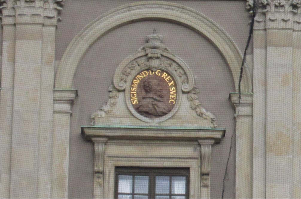 King Sigmund of Sweden, Sigmund III of Poland, as released by image creator Ristesson HistoryPlace: Stockholm Palace, Sweden